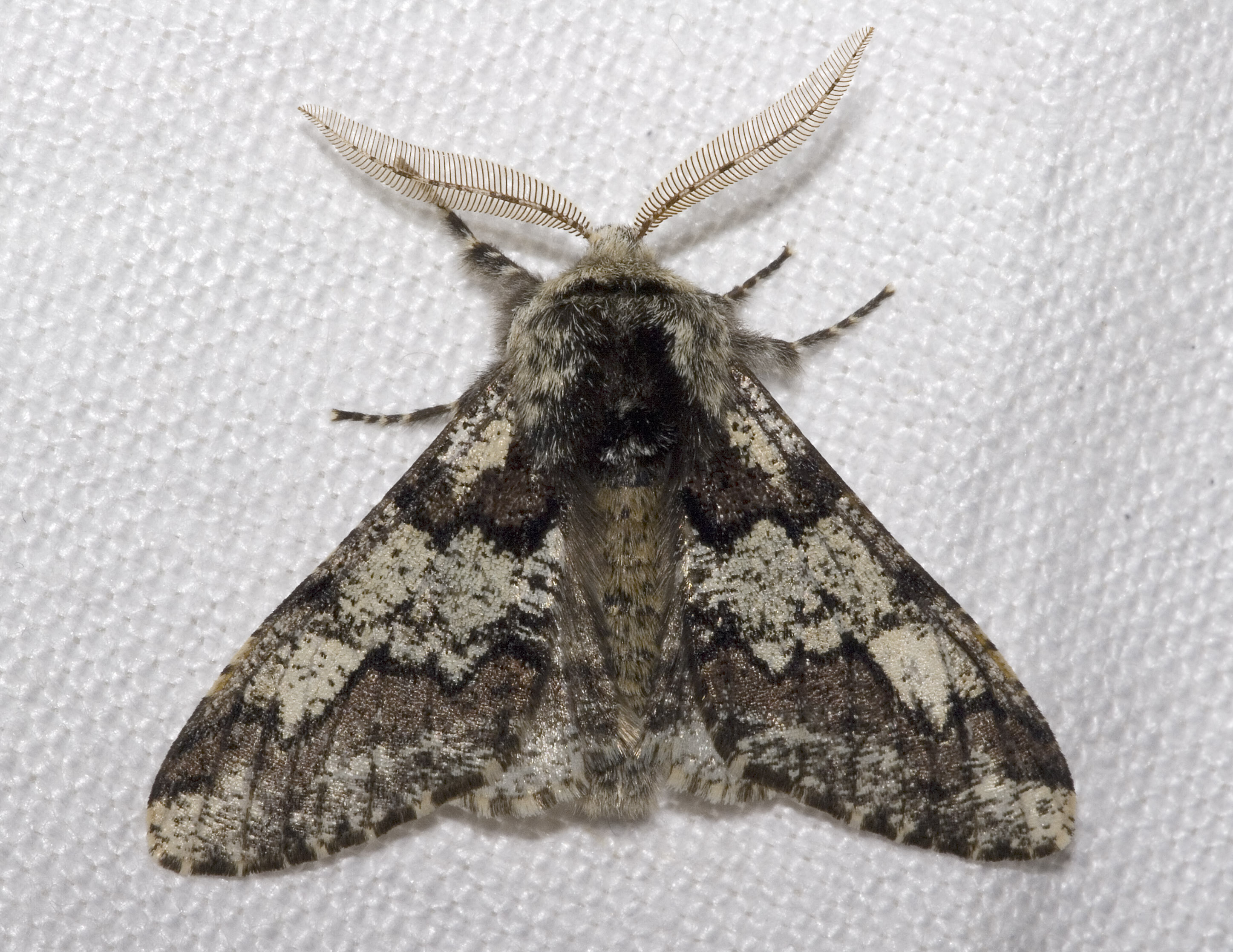 Oak Beauty